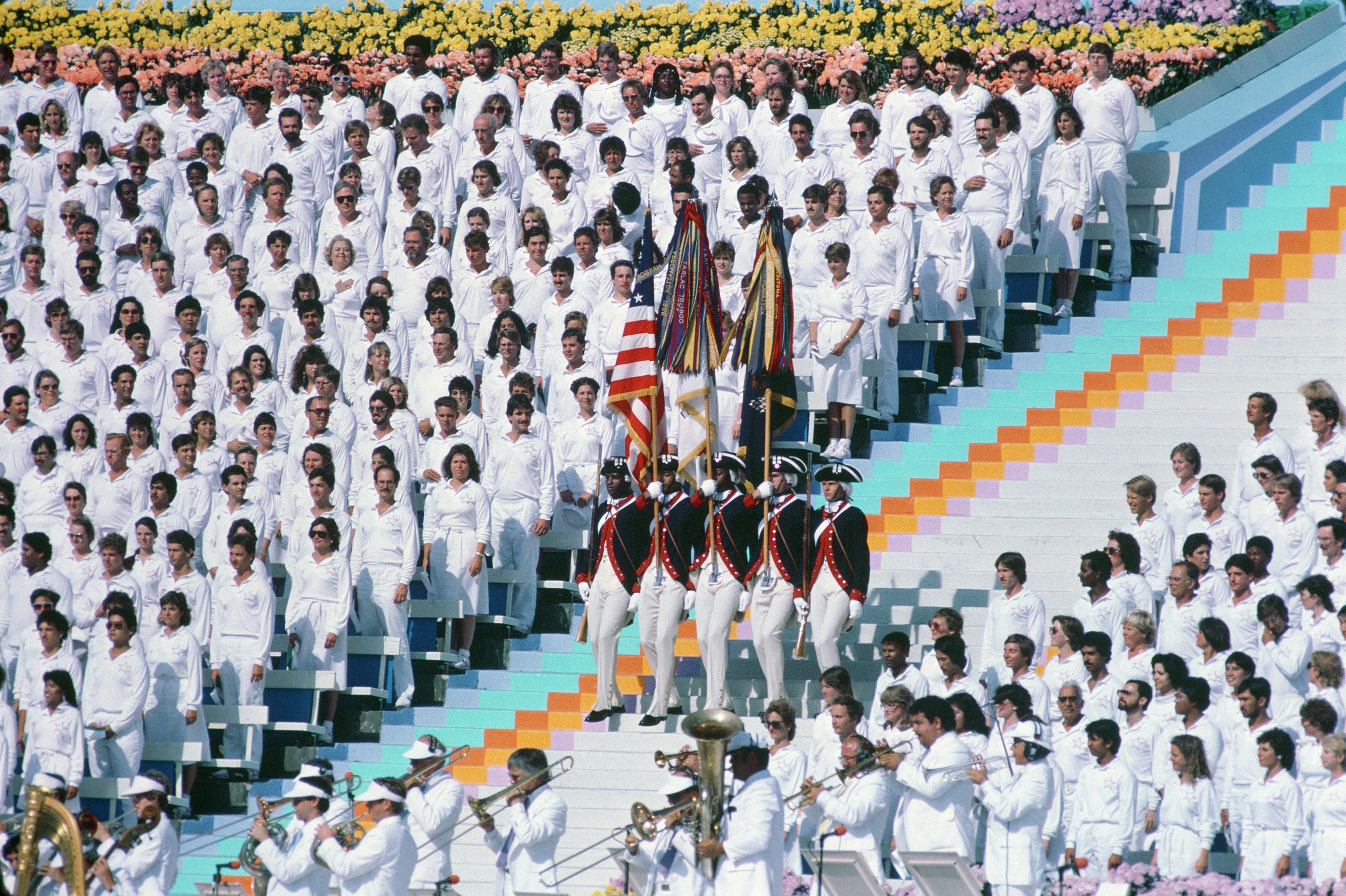 A color guard wearing Revolutionary War costumes participates in the opening ceremonies for the 1984 Olympics.